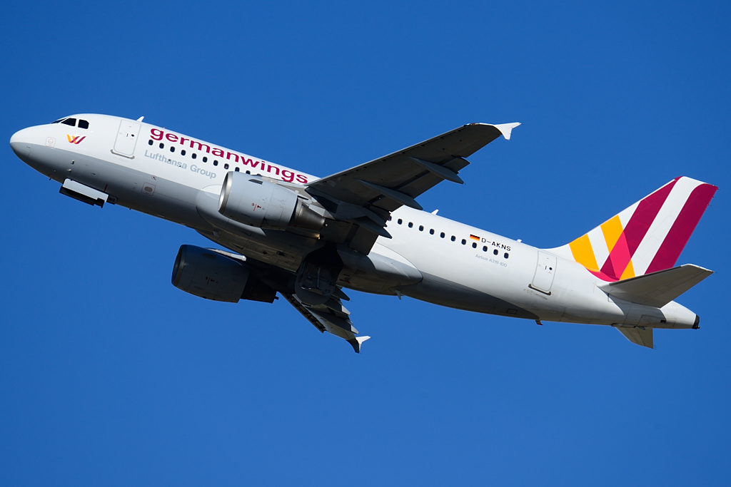 Germanwings A319 D-AKNS climbing out of Rome Fiumicino Airport on its daily service to Stuttgart on 13.05.2013